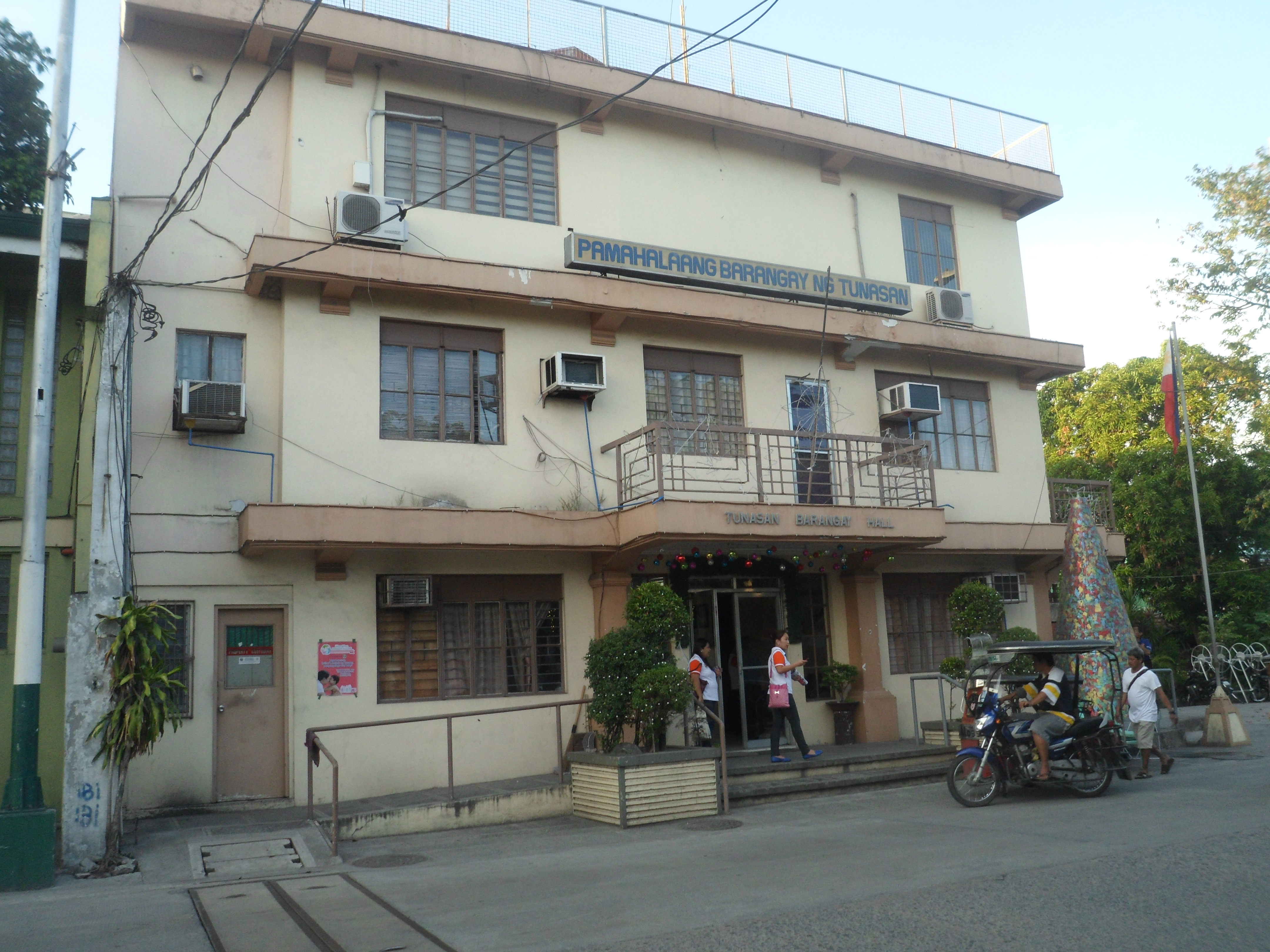 Tunasan Barangay Hall.Tagalog: Tanggapan ng Pamahalaang Pambarangay ng Tunasan, Lungsod ng Muntinlupa.